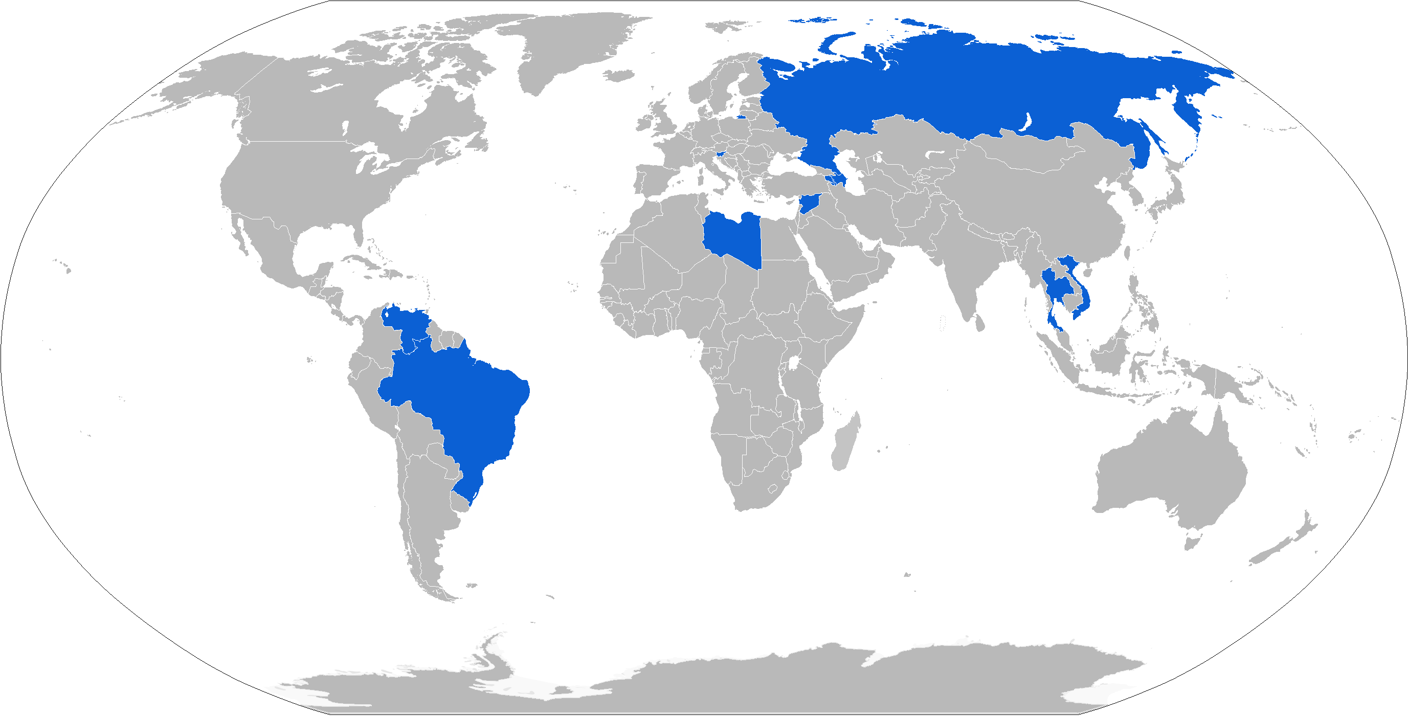 Map with SA-24 operators in blue